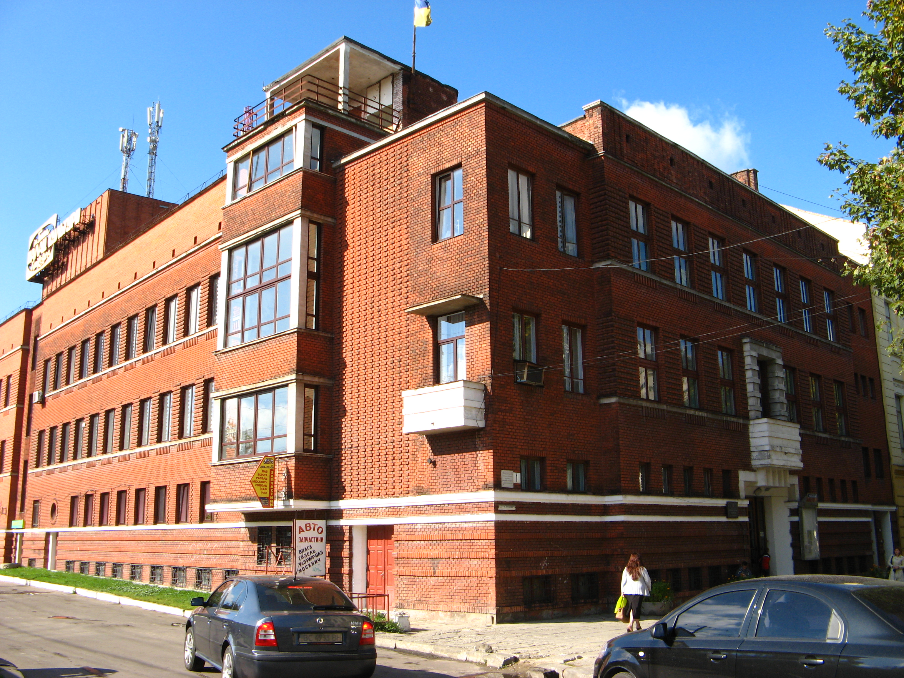 Lviv, Kushewycha street, 1